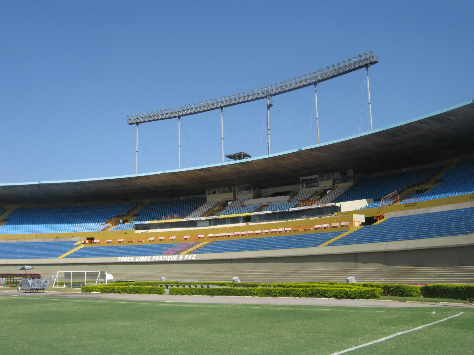 Estádio Serra Dourada in Goiania, Brazil